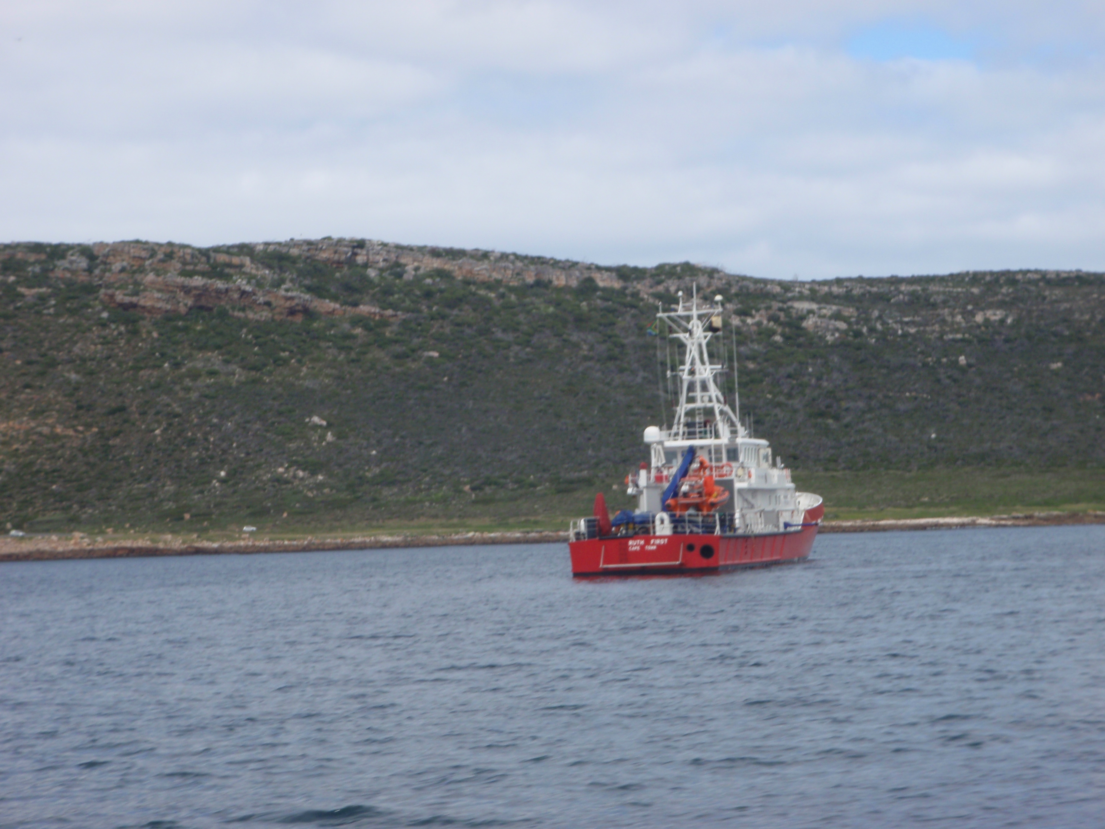 Fisheries protection vessel Ruth First at Buffels Bay off the Cape Peninsula